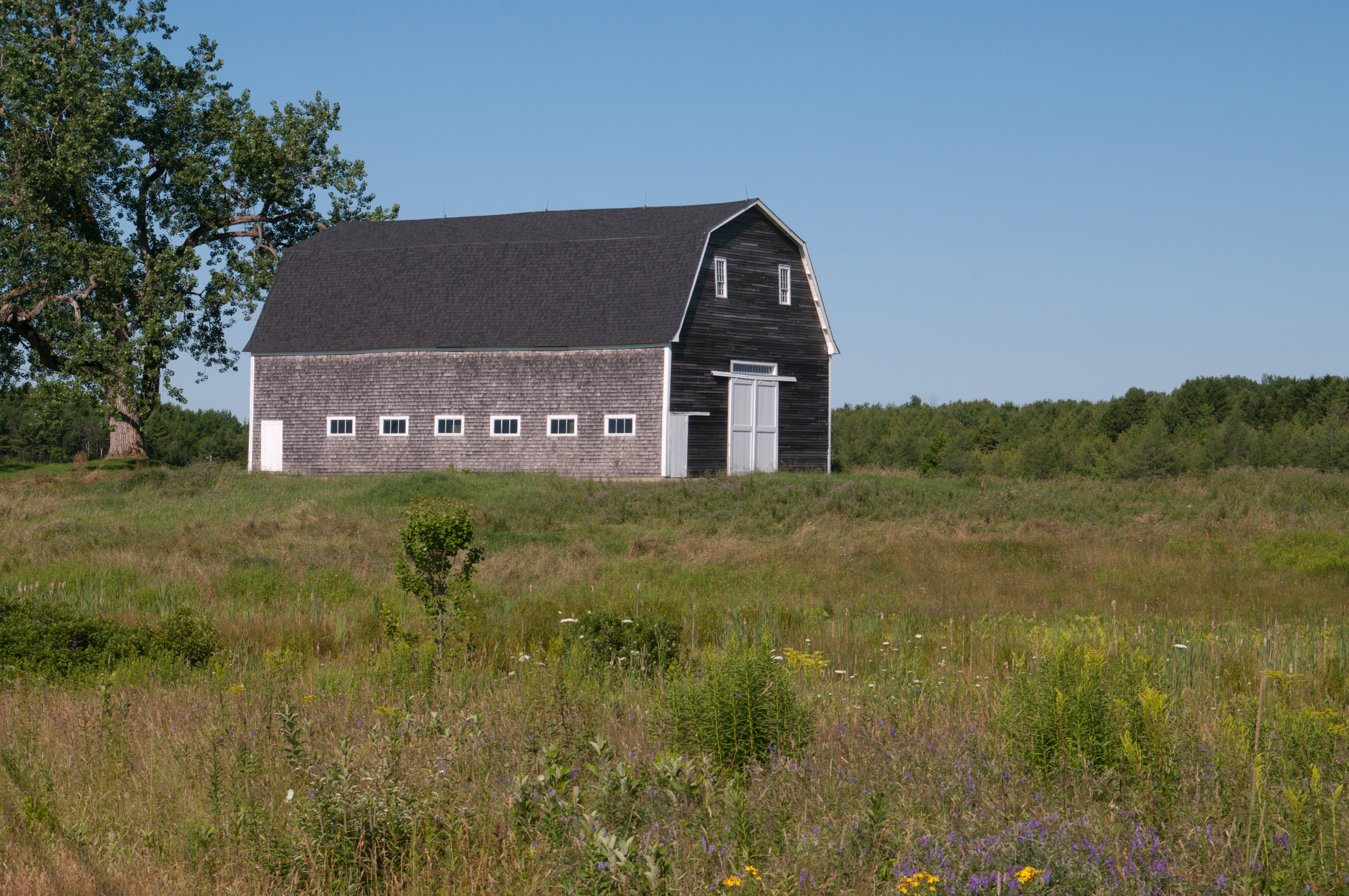 Barn in the Pennelville historic district, Brunswick, Maine